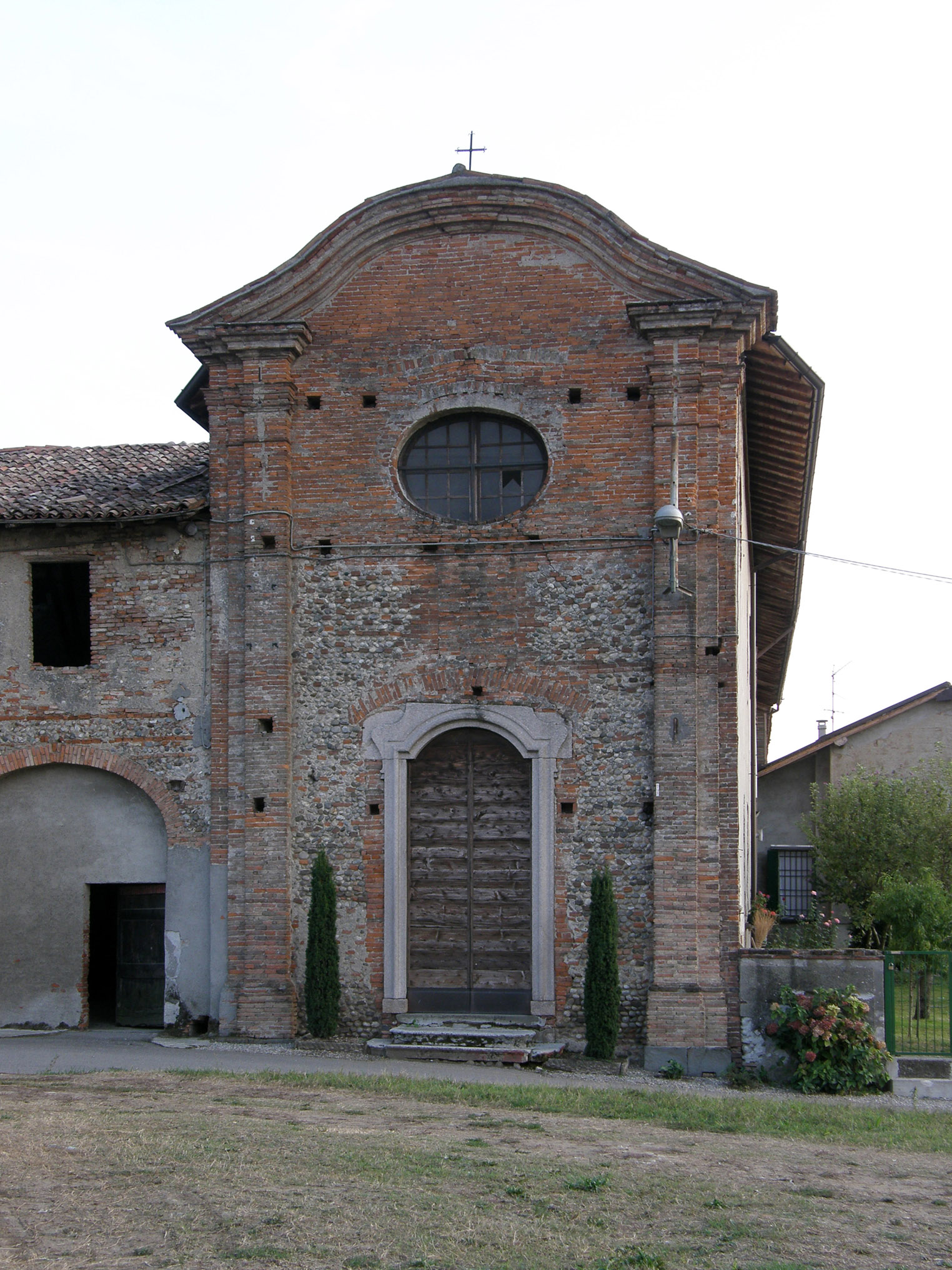 Church of "Beata Vergine del Rosario", Cascina Ravaiola, Arzago d'Adda, Bergamo, Italy